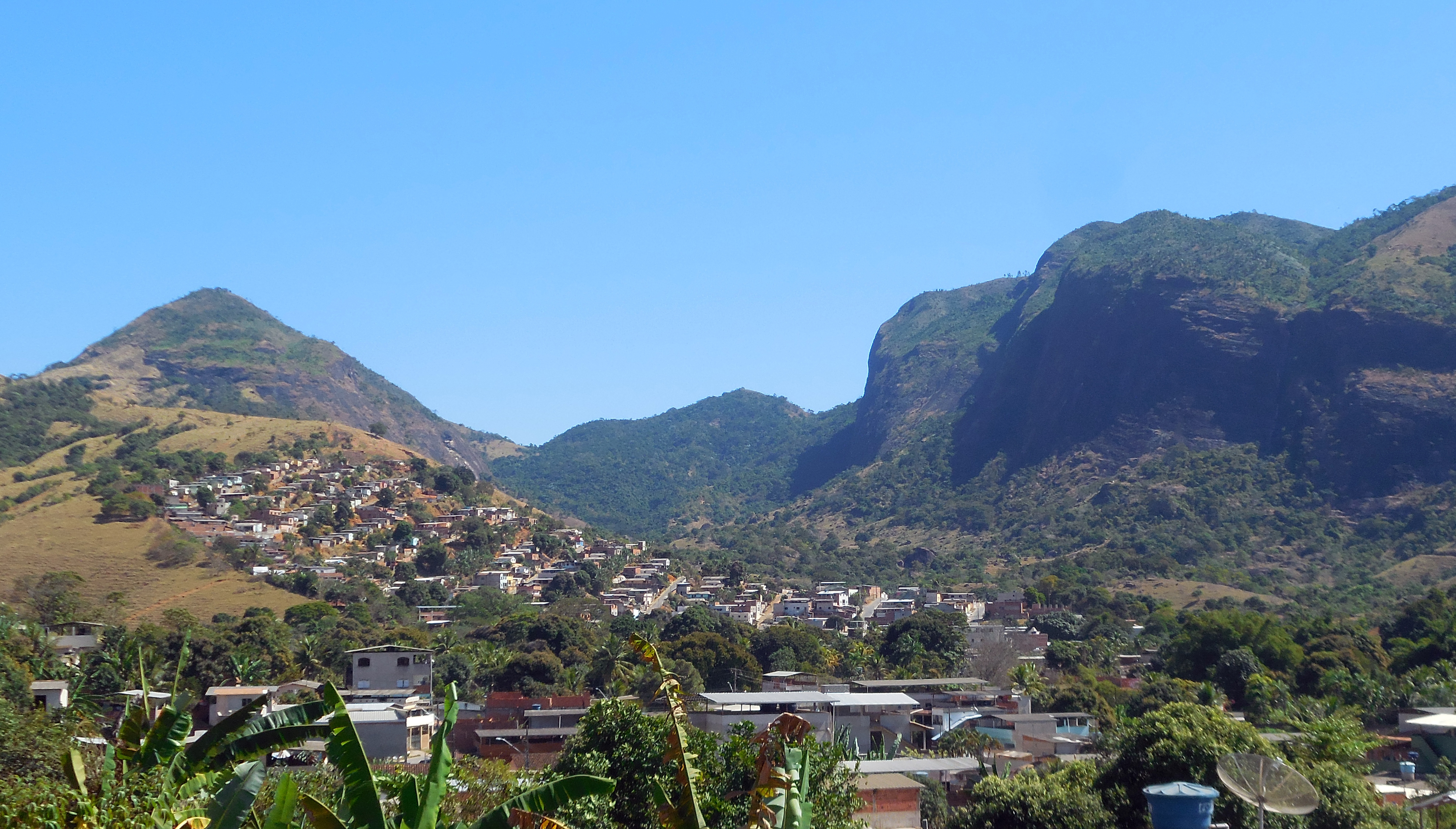 The Residencial Paraíso neighborhood with rock formations in the background, in Santana do Paraíso, Minas Gerais, Brazil.